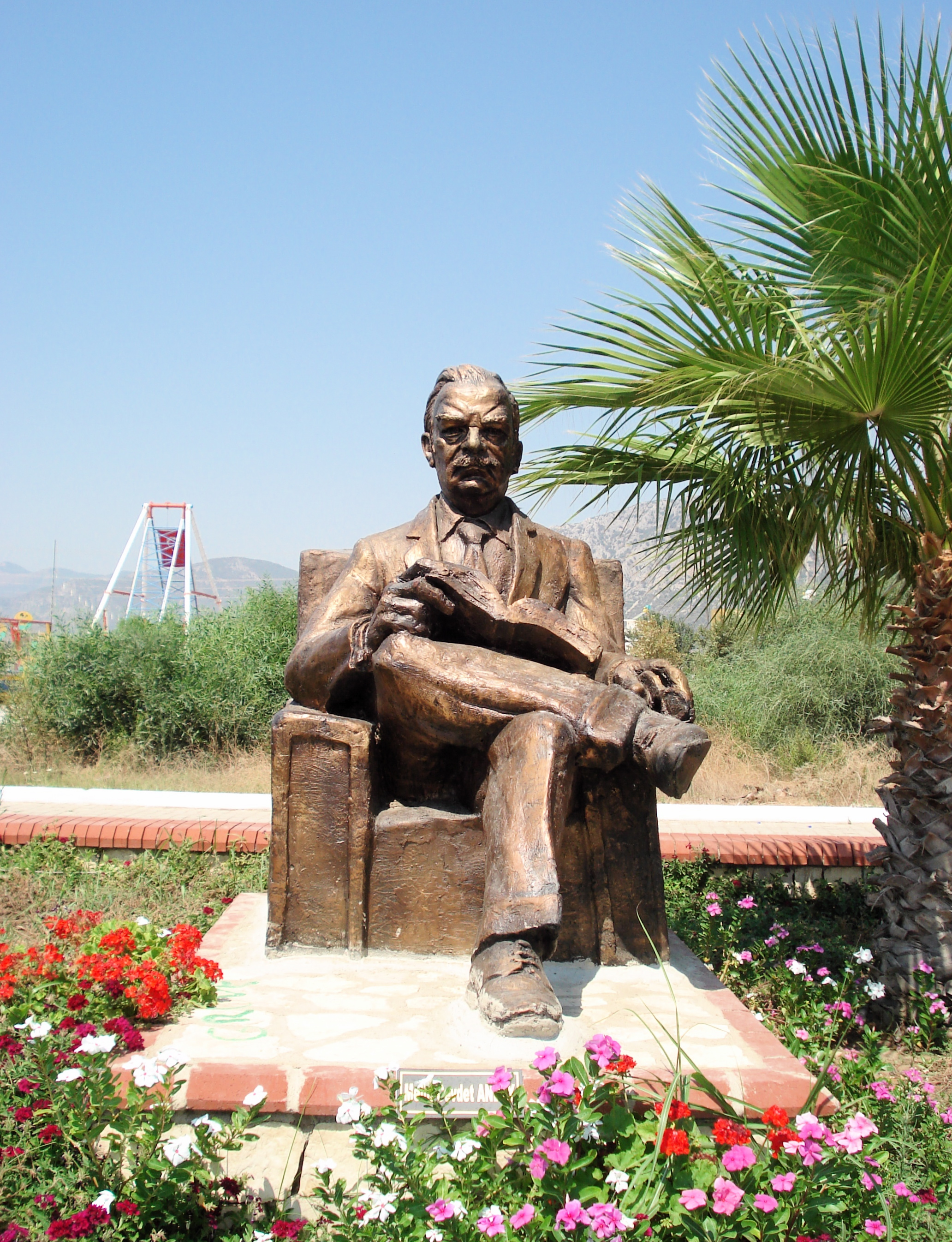 Ören, Milas, Muğla (Melih Cevdet Anday Parkı'ndan heykeli); Statue of the poet in Melih Cevdet Anday Park, Ören, Mugla Province, sculpted by Metin Yurdanur (1994)